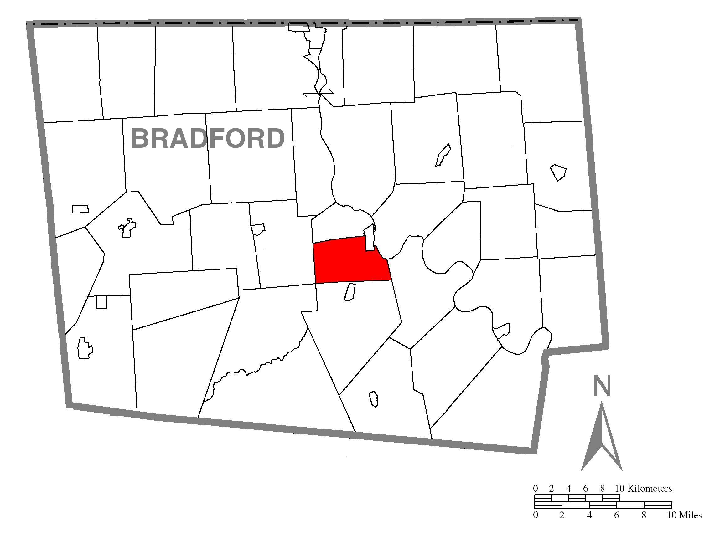 A map of Bradford County showing Towanda Township, Pennsylvania (alternate) highlighted on the map.